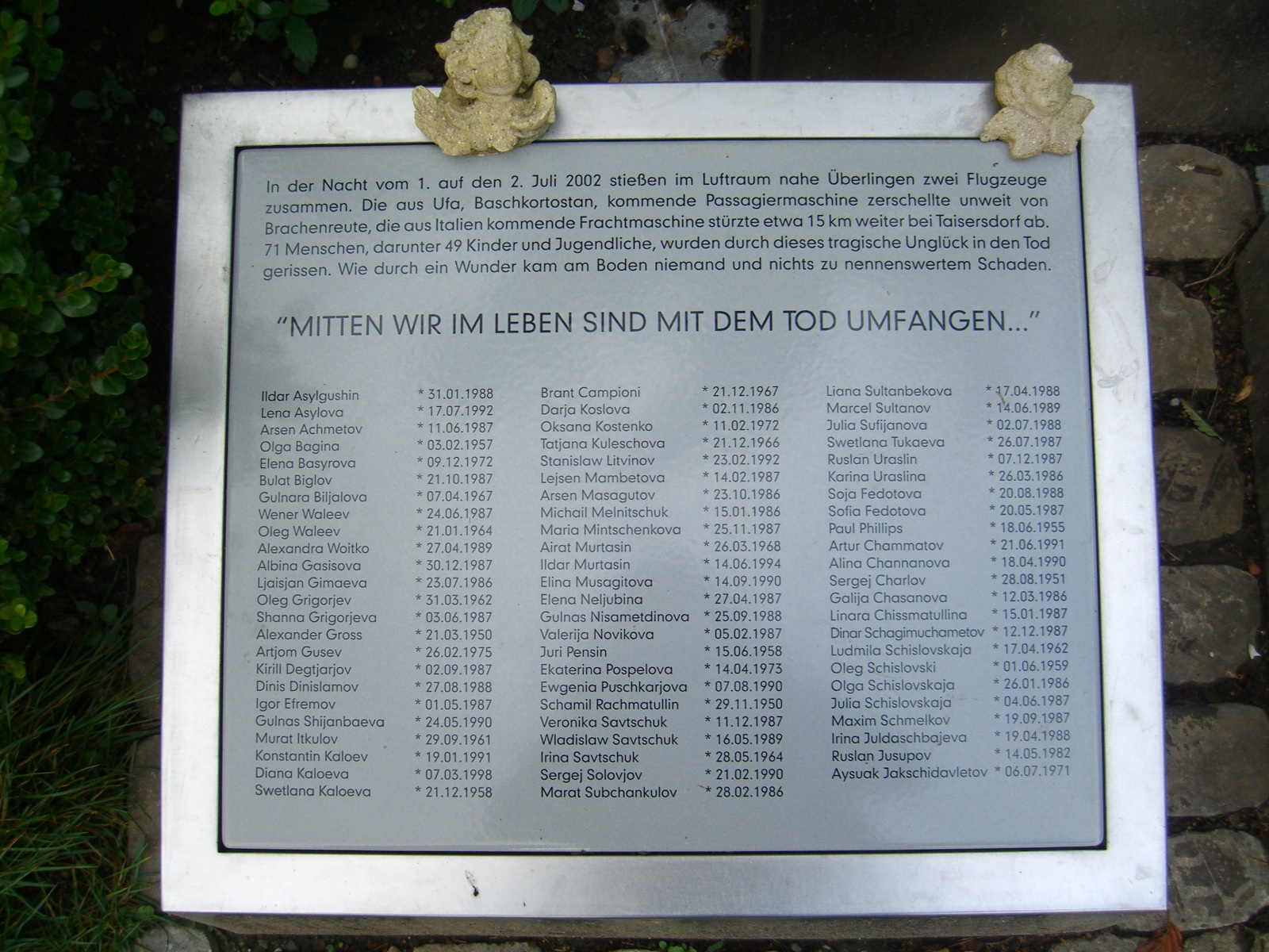 Memorial plaque for the victims of the airplane crash at Überlingen, Germany, on 2 July 2002. The inscription translates as follows: "In the night between 1 July and 2 July 2002, two aircraft collided in the airspace near Überlingen. An airplane coming from Ufa, Bashkortostan [Russia] crashed near Brachenreute, while the other aircraft coming from Italy fell to the ground some 15 km further near Taisersdorf. 71 persons including 49 children and youths died in this tragic accident. Miraculously, no person and not a thing on the ground suffered considerable damage. 'In the midst of our lives we are surrounded by death'."